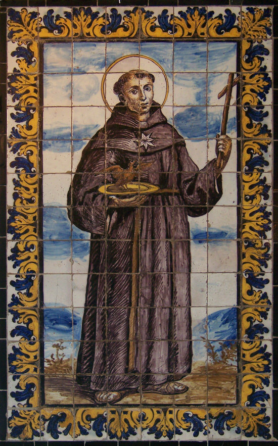 St. Nicholas of Tolentino, ceramic placard at Sevilla, old convent of Santa Paula